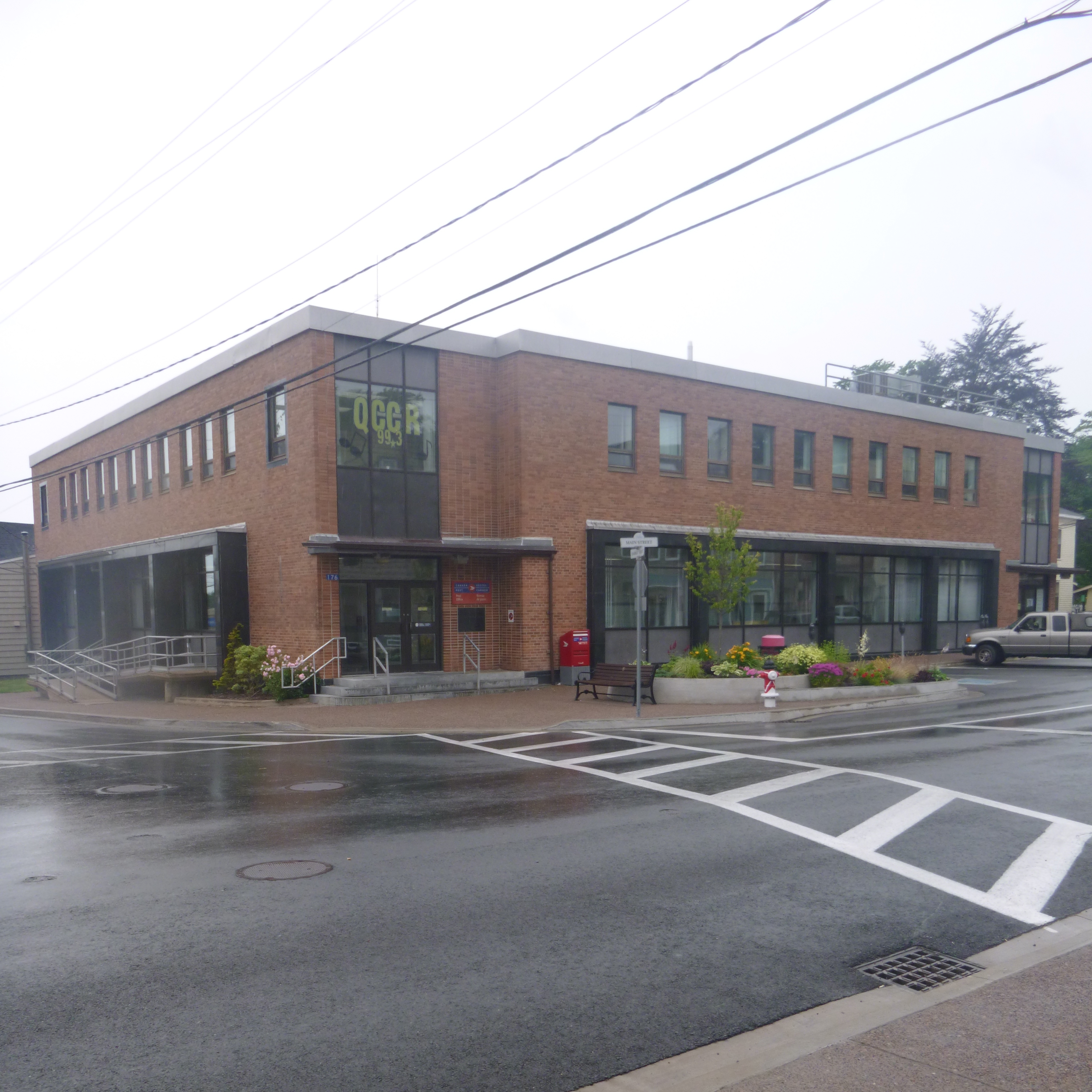 Post office in Liverpool, Queens County, Nova Scotia